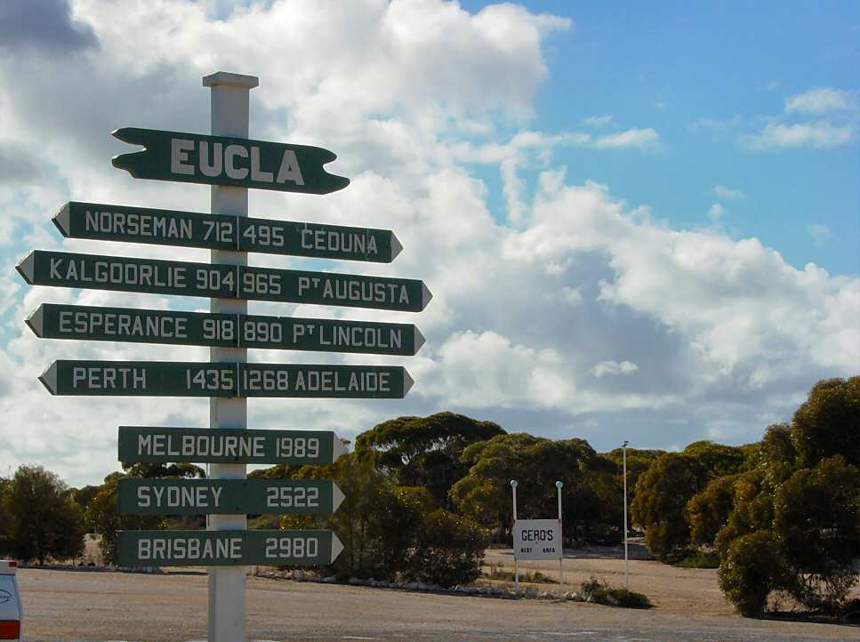 Photo taken and supplied by Brian Voon Yee Yap. Road Sign.